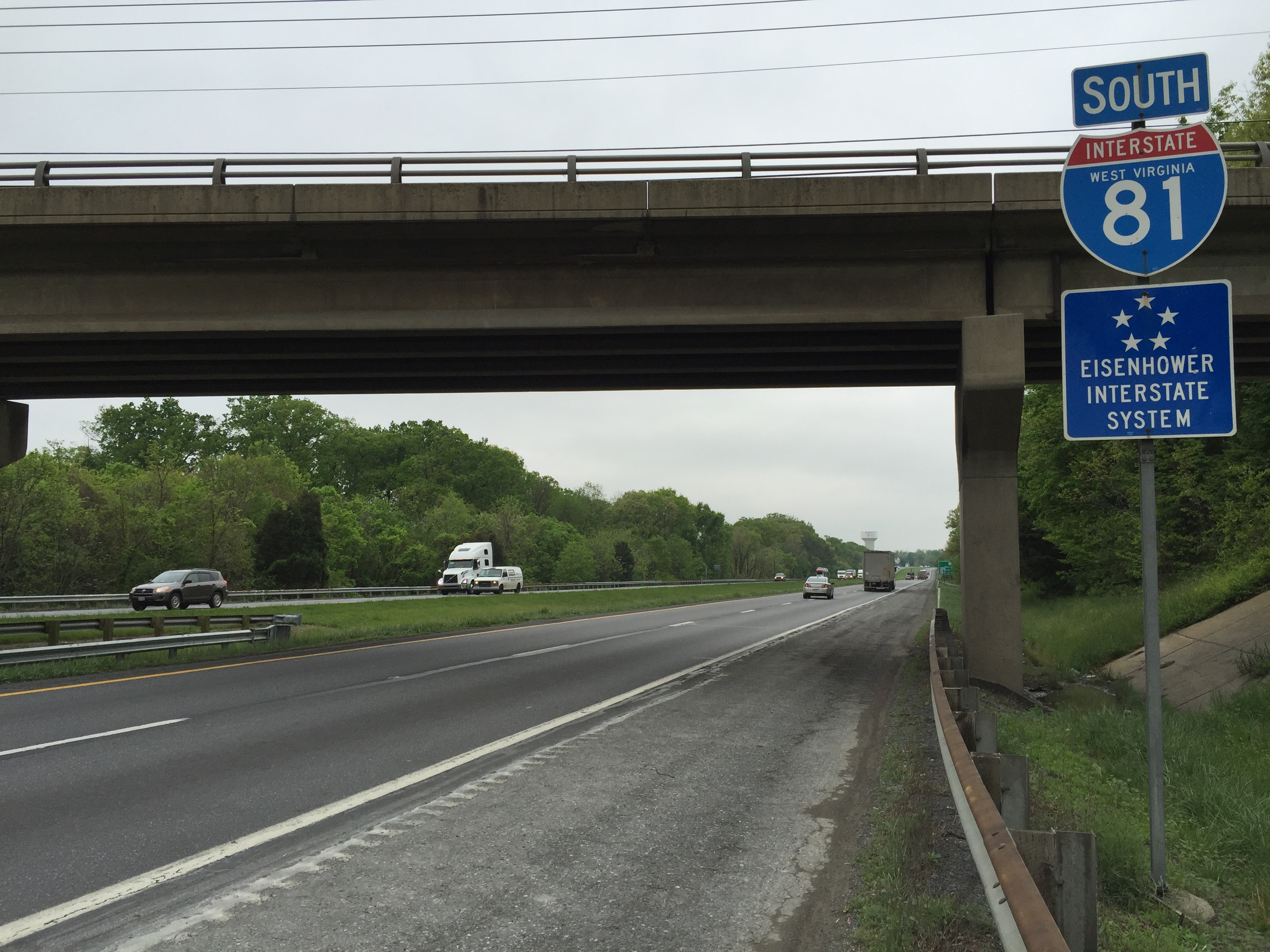 View south along Interstate 81 just south of the Potomac River in Marlowe, Berkeley County, West Virginia